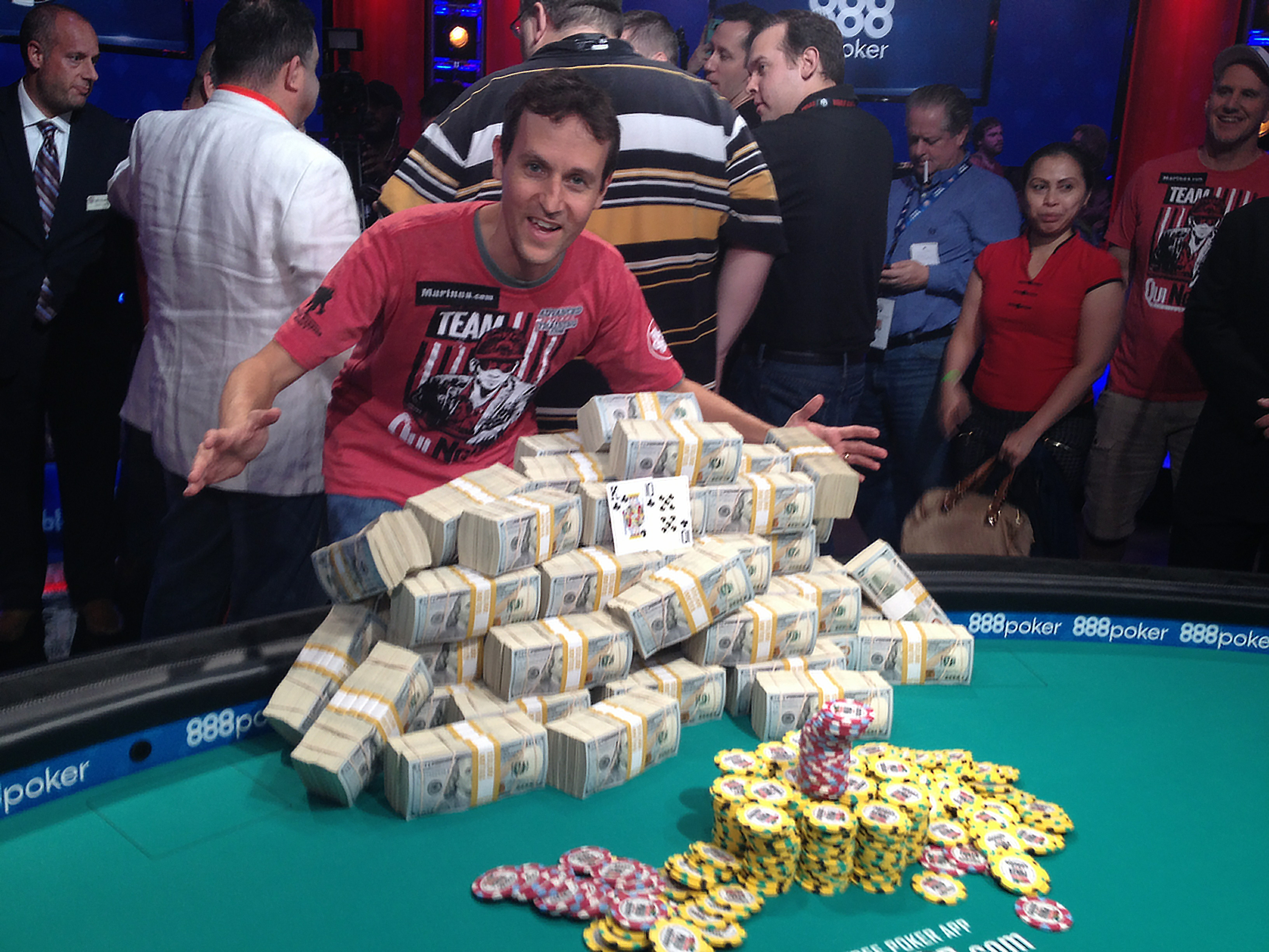 Steve Blay standing with the winning hand and the prize money from the Main Event in November 2016.